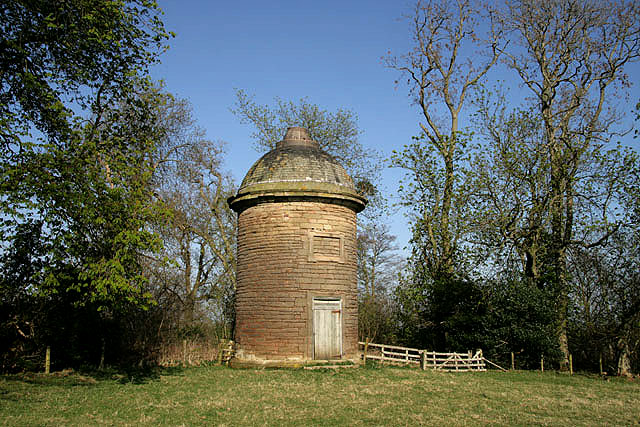 Marchmont Doocot. This circular doocot was built by James Williamson in 1749. It stands at the end of an avenue, 1.8km northeast of Marchmont House.